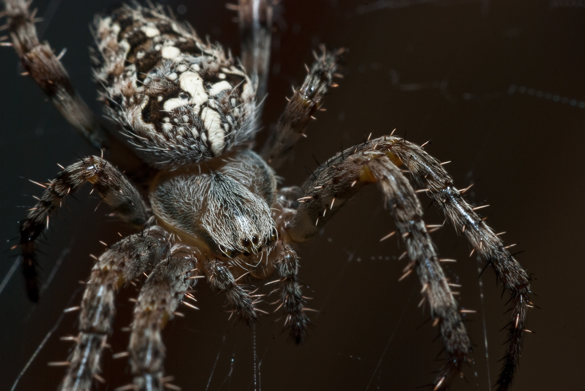 Araneus diadematus close-up